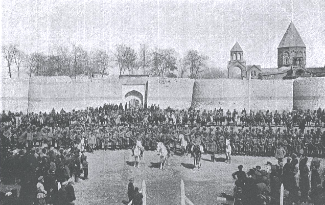 Battalion of Armenian volunteer units pictured in 1914